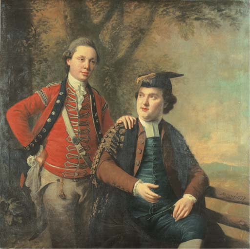 Double portrait of General Richard Wilford of the British Army and his contemporary Sir Levett Hanson. The figures are three-quarter length, Wilford standing in his uniform of the Light Company of the 2nd (Queen's Royal) Regiment of Foot; courtier and authority on knighthood Hanson, seated, in academic robes. Both beside a tree in an extensive background.